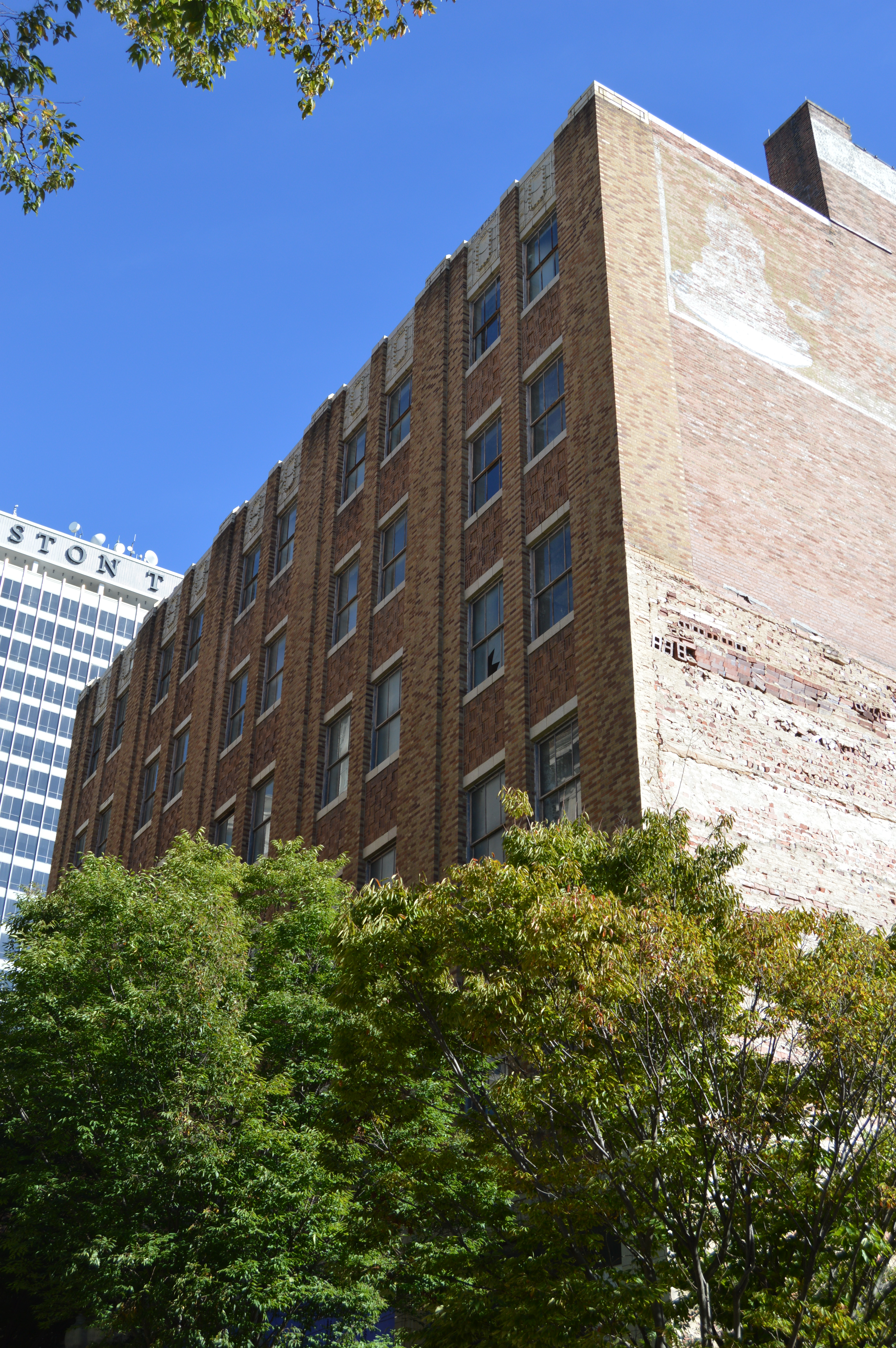 Front of the Pepper Building, located at 100-106 W. Fourth Street in Winston-Salem, North Carolina, United States. Built in 1928, it is listed on the National Register of Historic Places.